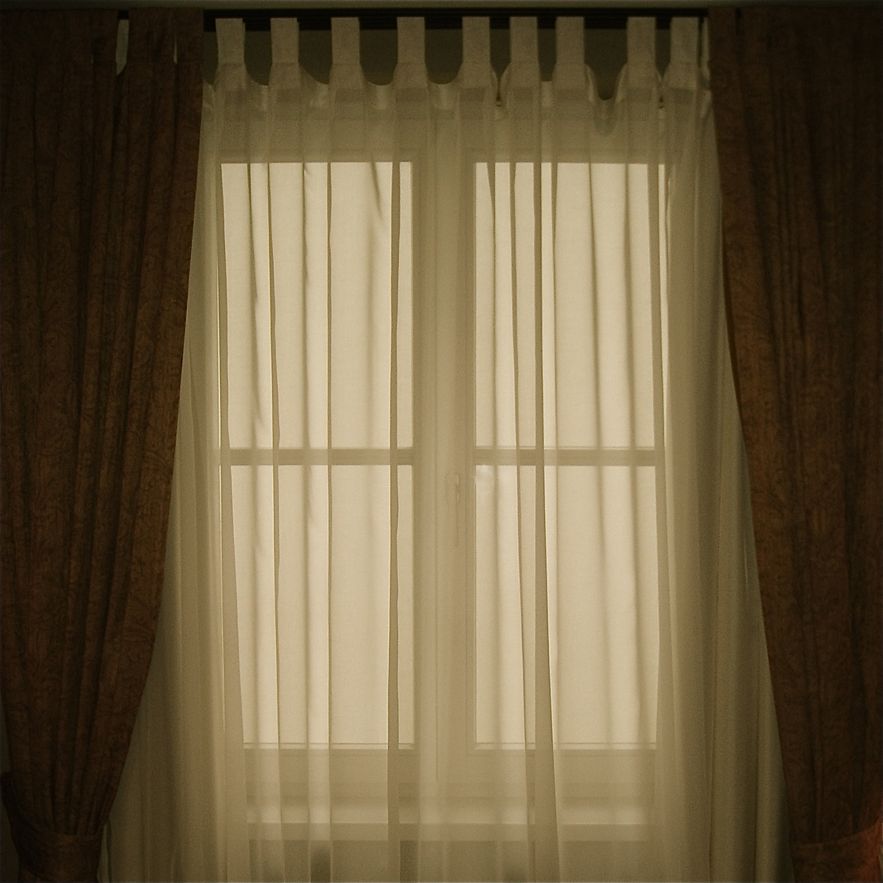 Transluscent curtains in front of a window.